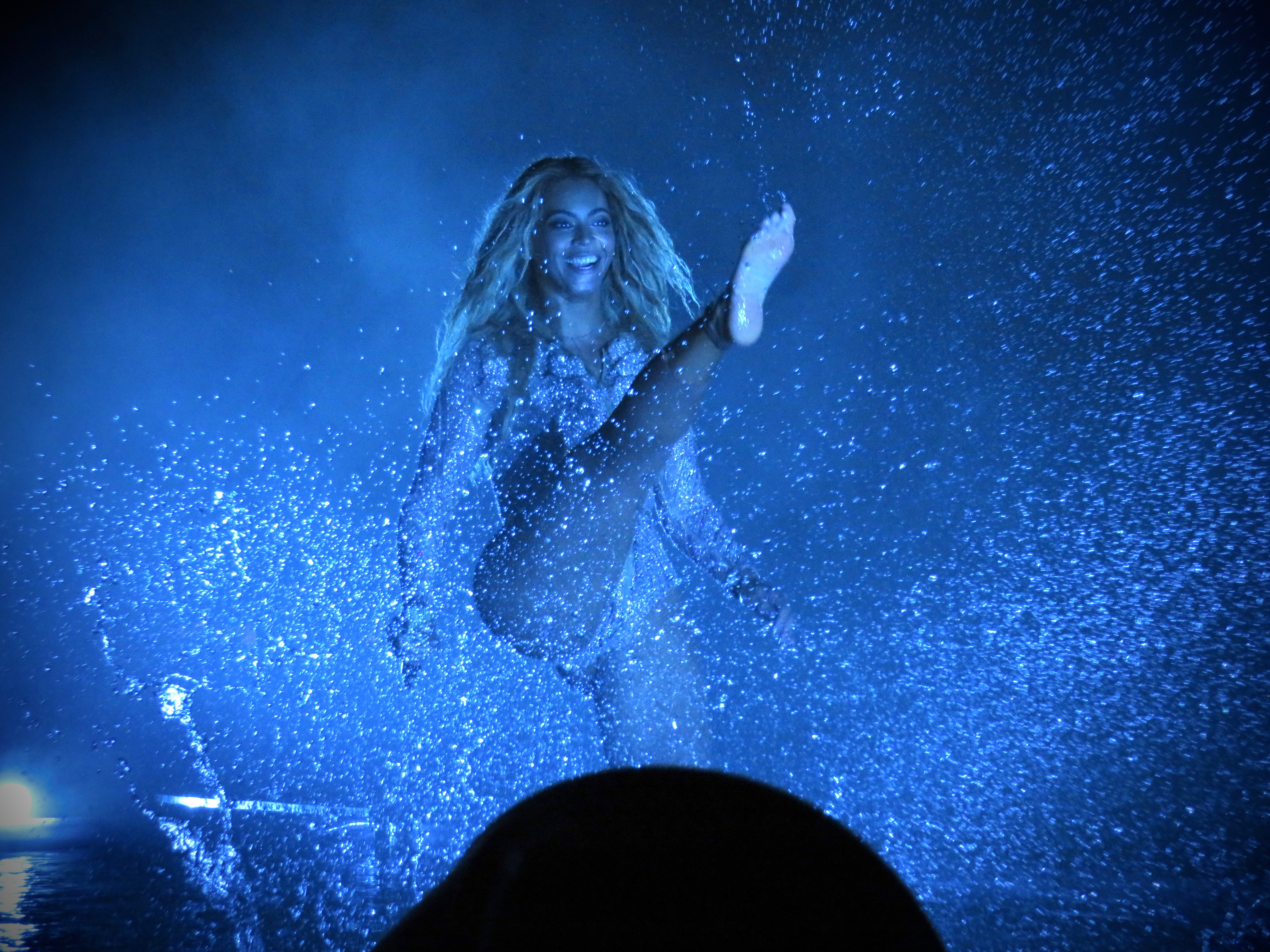 Beyoncé performing during The Formation World Tour, at Levi's Stadium in Santa Clara, California on May 16, 2016.